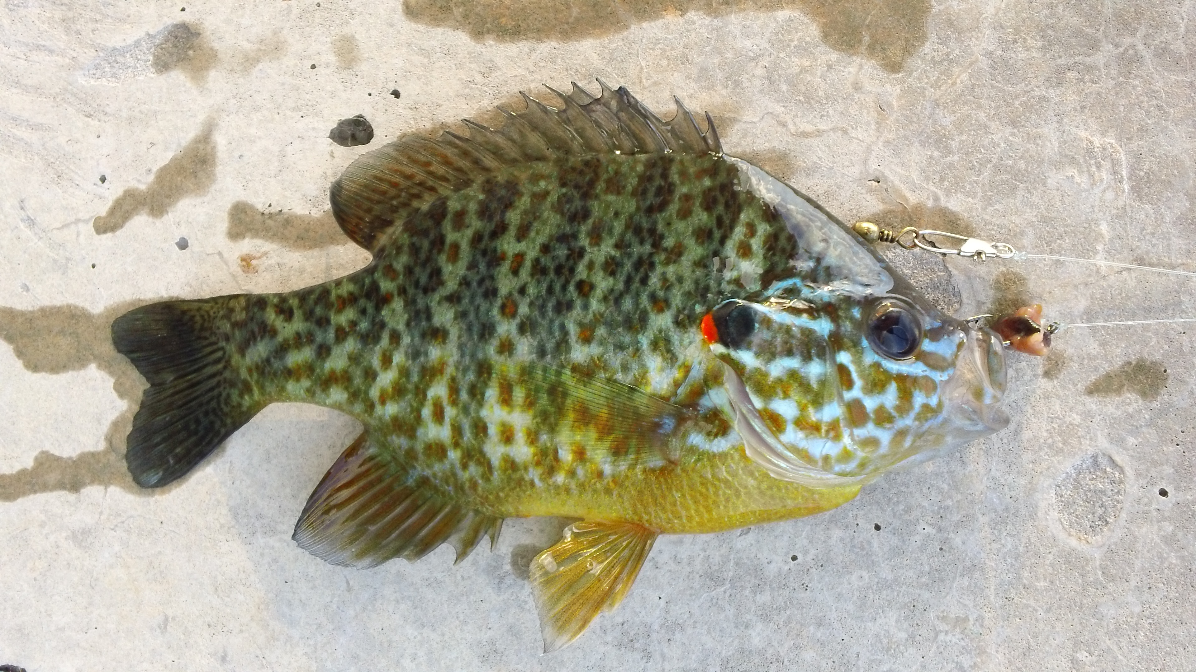 Pumpkinseed sunfish, caught in Grosse Pointe Shores, MI